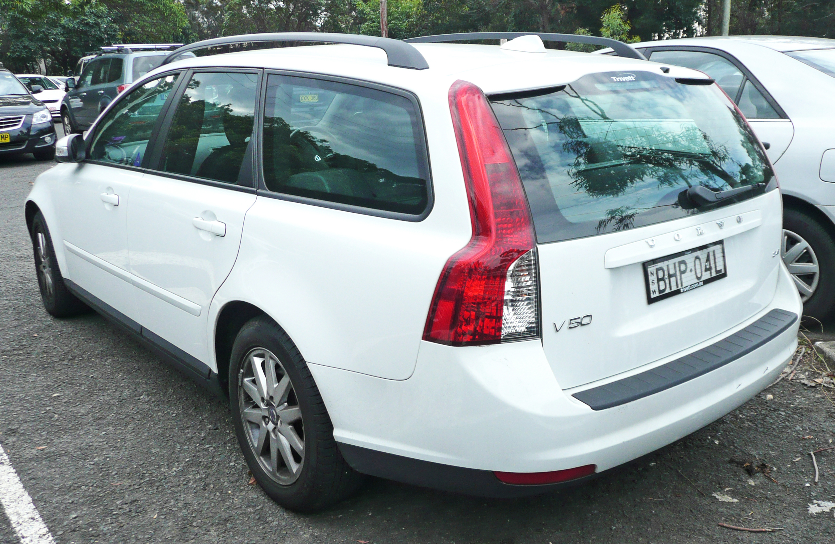 2008 Volvo V50 (MY09) LE station wagon. Photographed in Sutherland, New South Wales, Australia.